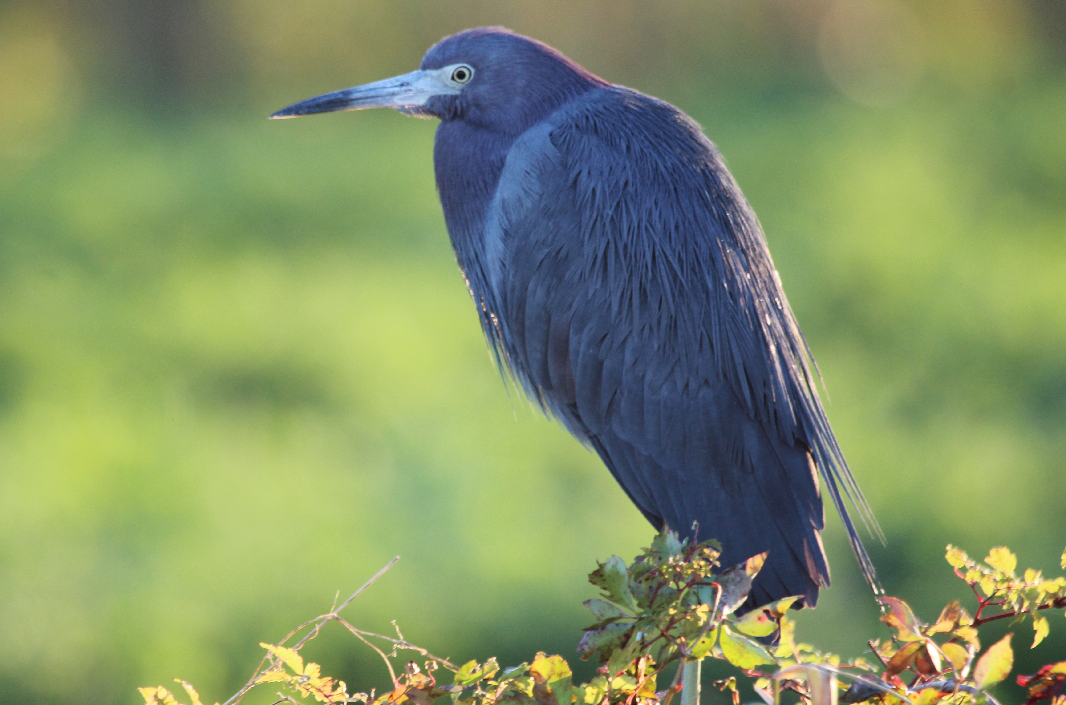 Little Blue Heron adult at Loxahatchee National Wildlife Refuge, Florida along the Marsh Trail.